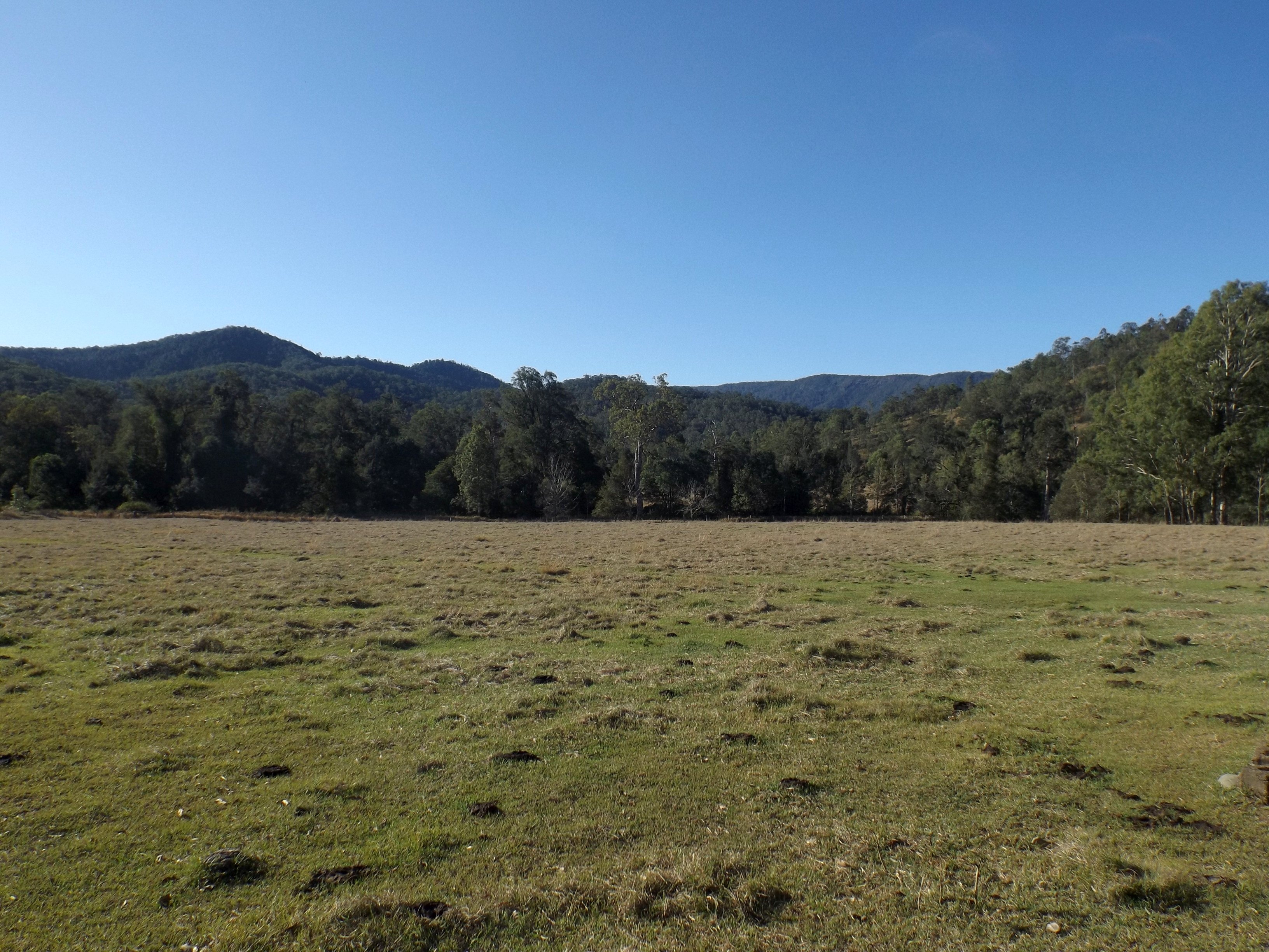 Photo of paddocks along Mount Byron Road at Mount Byron, Somerset Region, Queensland, Australia. D'Aguilar Range is in the background.